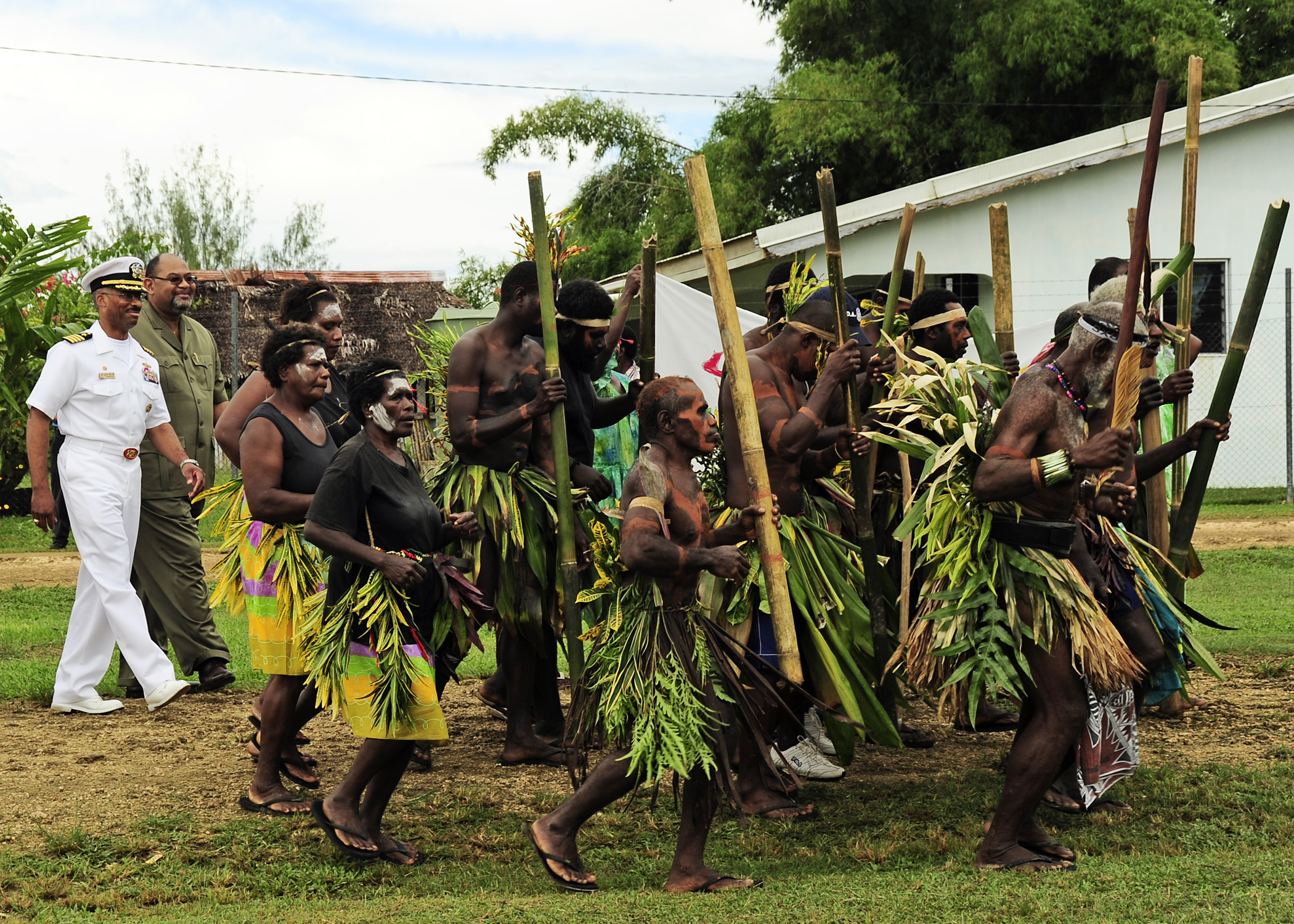 ESPIRITU SANTO, Vanuatu (April 29, 2011) Capt. Jesse A. Wilson, mission commander of Pacific Partnership 2011, is escorted into the Nakamal Chief Lodge by ni-Vanuatu customary dancers during the opening ceremony for the Vanuatu phase of Pacific Partnership 2011. Pacific Partnership is a five-month humanitarian assistance initiative that will make port visits to Tonga, Vanuatu, Papua New Guinea, Timor-Leste and the Federated States of Micronesia. (U.S. Air Force photo by Tech. Sgt. Tony Tolley/Released)